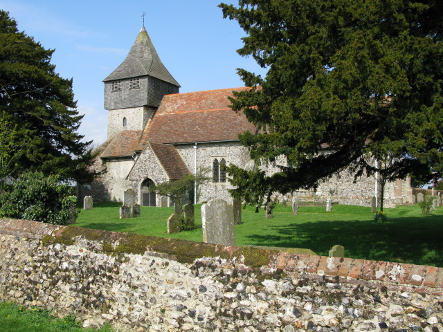 View of Elmsted church